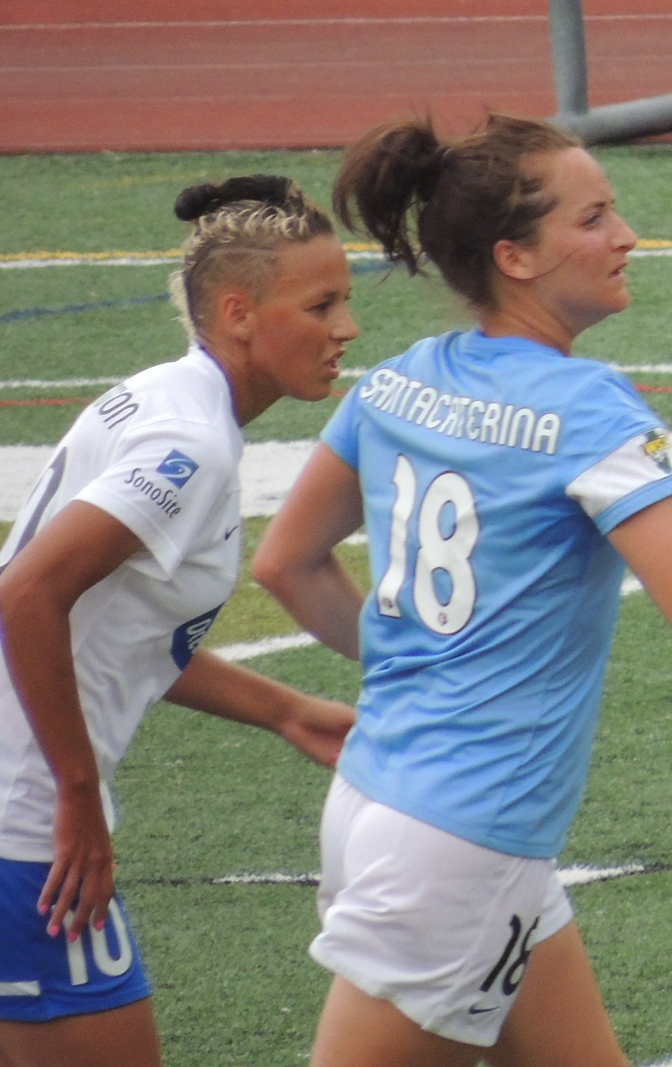 Lianne Sanderson and Jackie Santacaterina, soccer players; 2013-06-09 Chicago Red Stars vs Boston Breakers